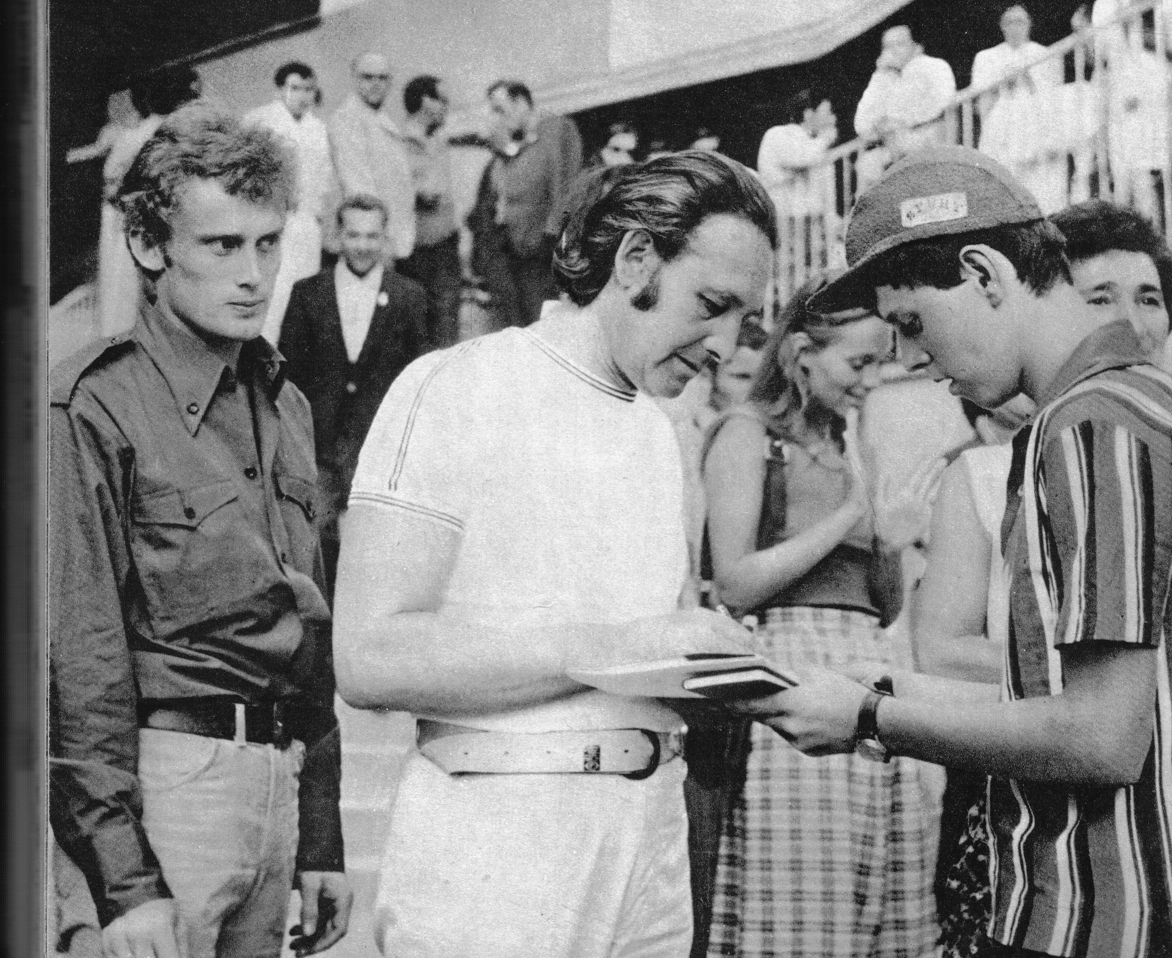 Daniel Olbrychski and Andrzej Wajda at the Lubuskie Lato Filmowe film festival. Late 1960s or early 1970s.